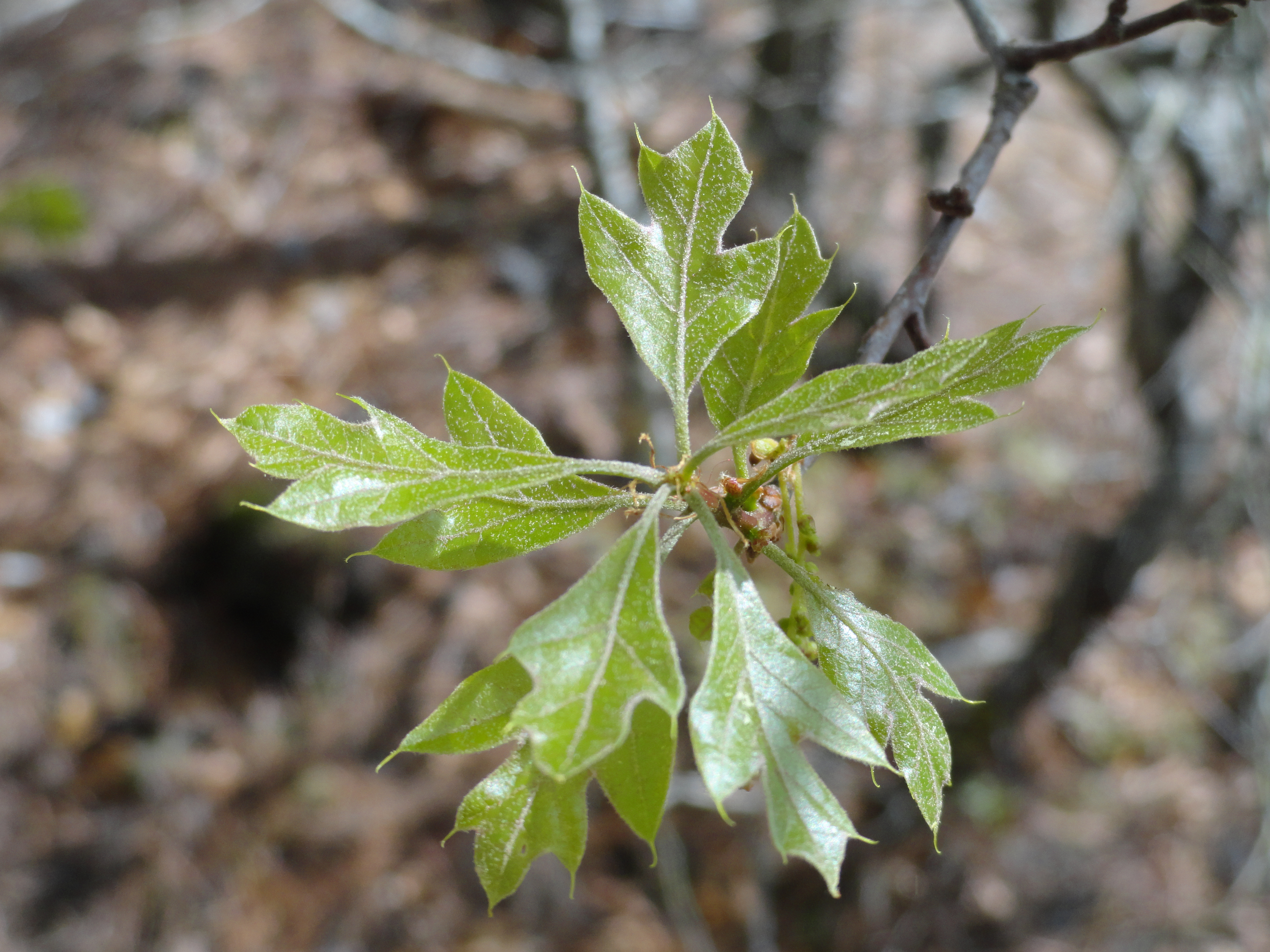 Quercus georgiana small leaves in early spring, taken on the Walk Up Trail at Stone Mountain Park in Georgia, US